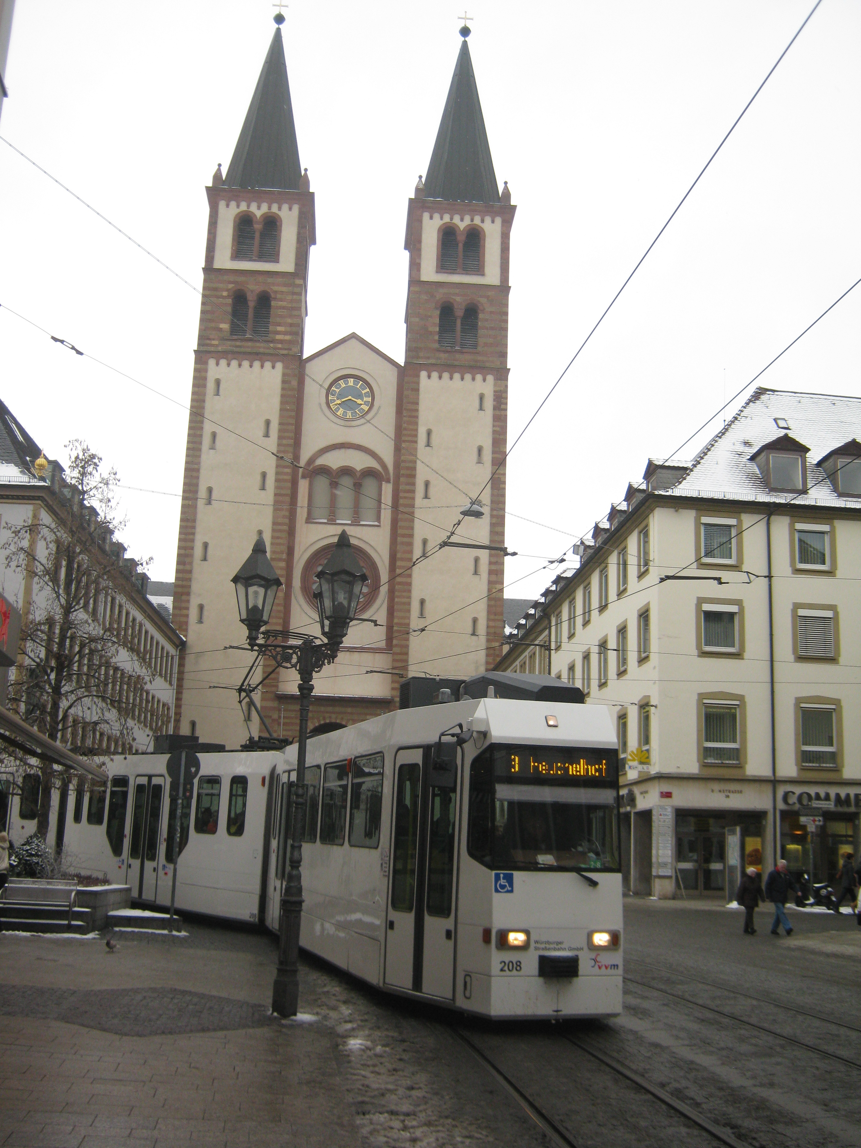 A tram in Würzburg near the Cathedral, in Domstrasse